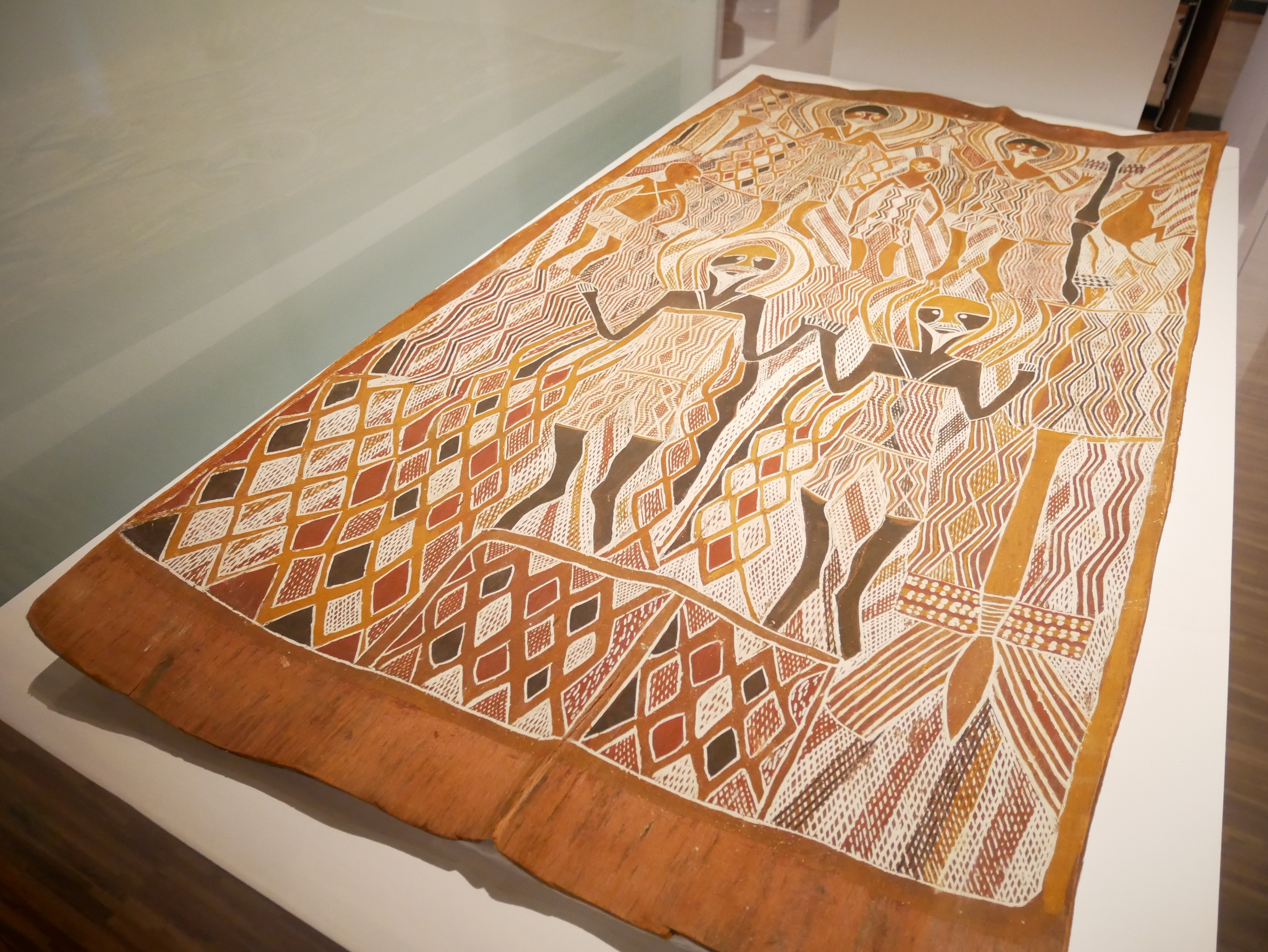 〈阿納姆地東部四個偉大易瑞卡立法者〉（The Four Great Yirritja Lawgivers of Eastern Arnhem Land）樹皮畫（約1963年），臺北市中正區城內次分區黎明里